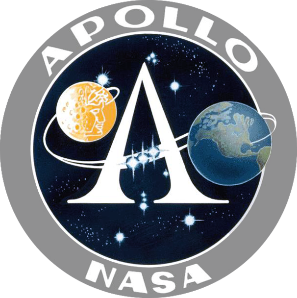 Apollo insignia.